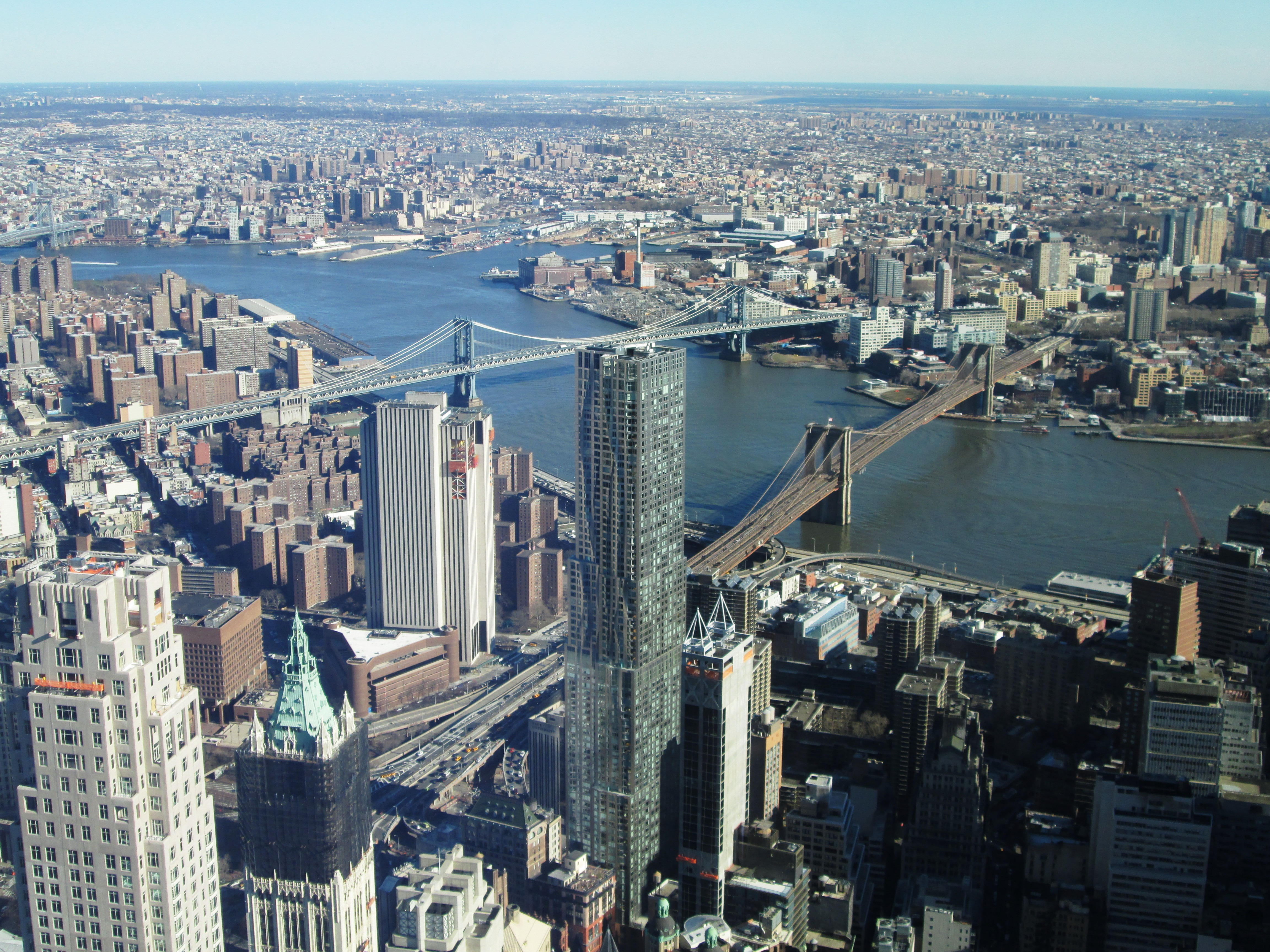 A view of the Manhattan (top) and Brooklyn (bottom) Bridges from the One World Observatory at One World Trade Center, Manhattan, New York City. The tall building partly obscuring the approach to the Brooklyn Bridge is Frank Gehry's 8 Spruce Street, and the top of the Gothic Revival Woorth Building can be seen in the foreground on the left side. Between them, in front of the Manhattan Bridge, is 375 Pearl Street, a 32-story telephone switching building.